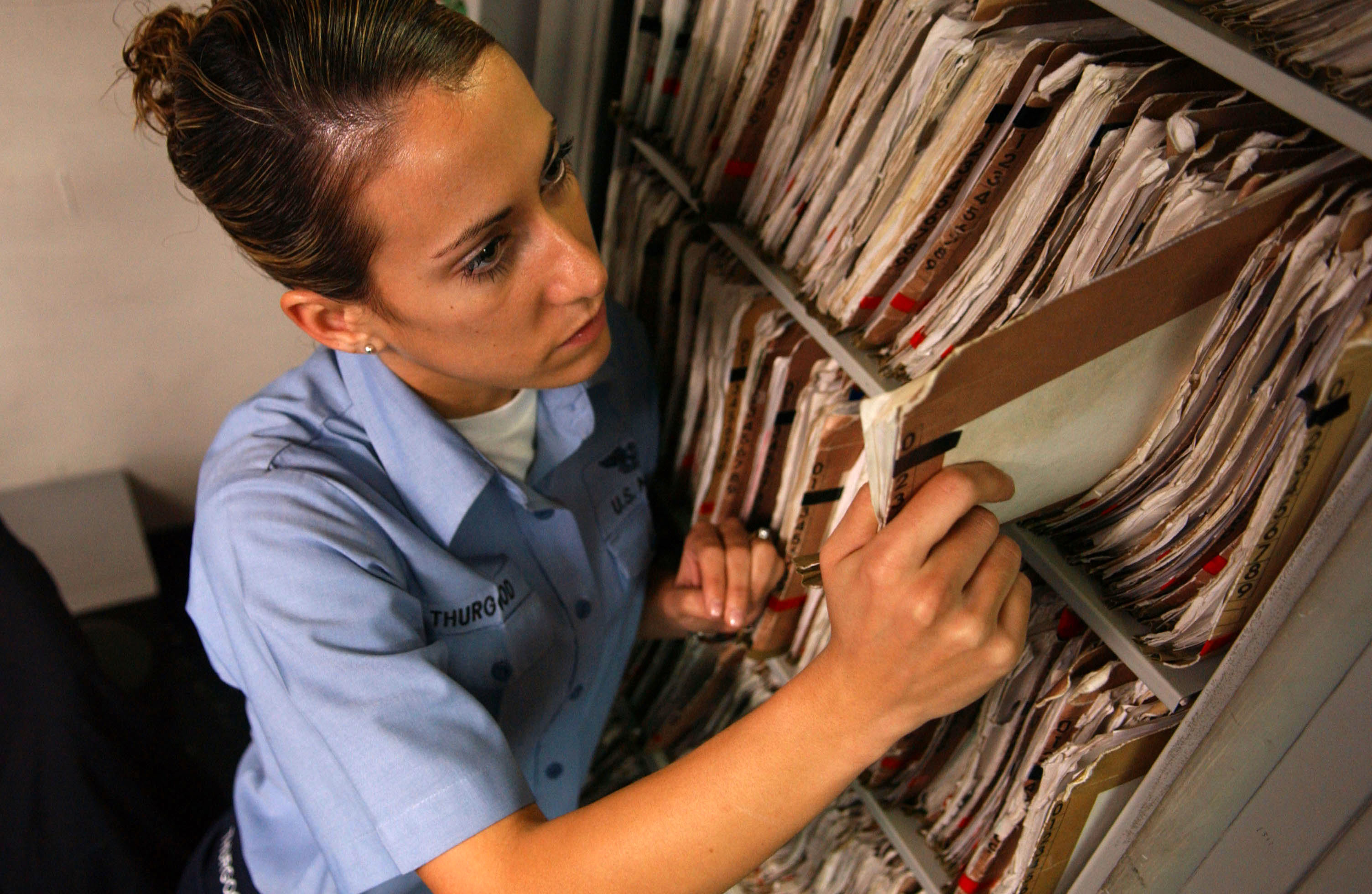 Yokosuka, Japan (Oct. 19, 2004) - Airman Lauren Thurgood of Las Vegas, Nev., pulls patient medical records in the inpatient ward aboard the conventionally powered aircraft carrier USS Kitty Hawk. Kitty Hawk's medical department services between 80 and 100 patients daily, providing around the clock, quality health care. Currently in port in Yokosuka, Japan, Kitty Hawk demonstrates power projection and sea control as the U.S. Navy's only forward-deployed aircraft carrier. U.S. Navy photo by Photographer's Mate 3rd Class Jason T. Poplin (RELEASED)